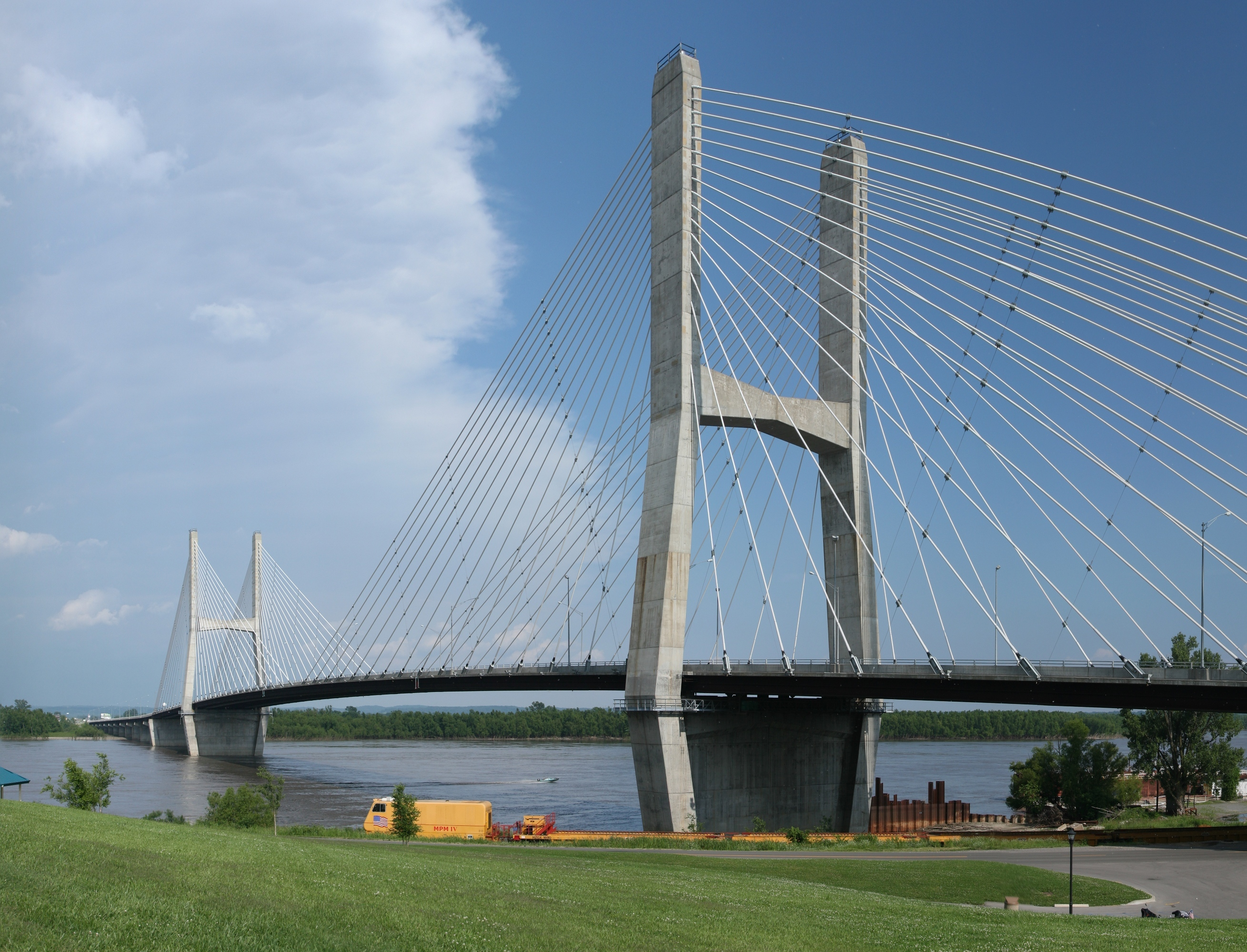 Bill Emerson Bridge crossing the Mississippi River at Cape Girardeau This image was created with Hugin.